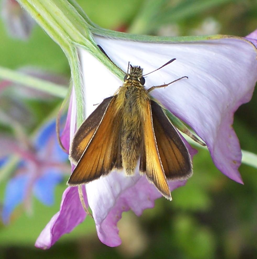 Thymelicus lineola